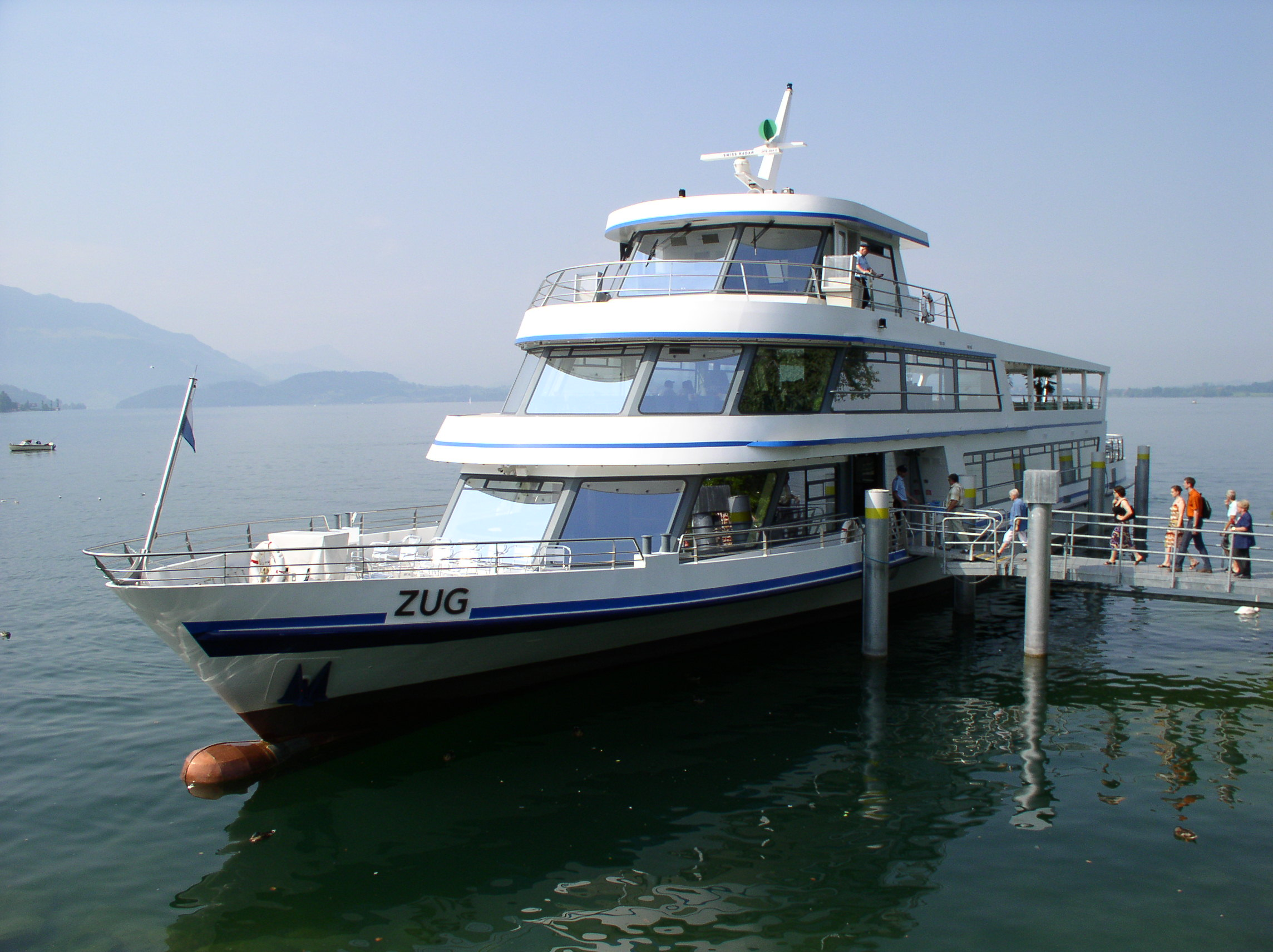 The passenger boat Zug on Lake Zug in Zwitzerland at train station in Zug (is located in the Canton of Zug and is the Canton capital) in boarding time .